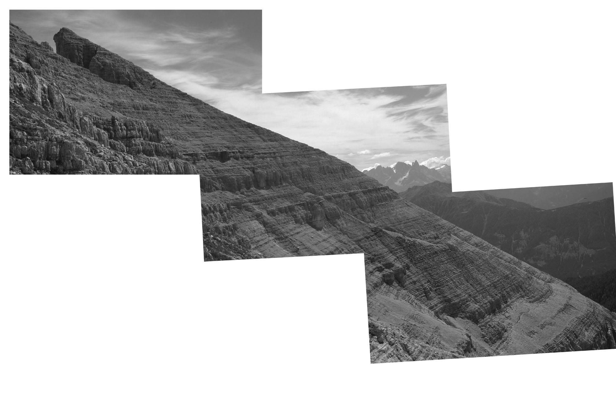 The Cimon del Latemar (Trento Province, Dolomites, northern Italy) represents a carbonate platform lagoonal interior aggrading up to 600 m. Author: Nereo Preto